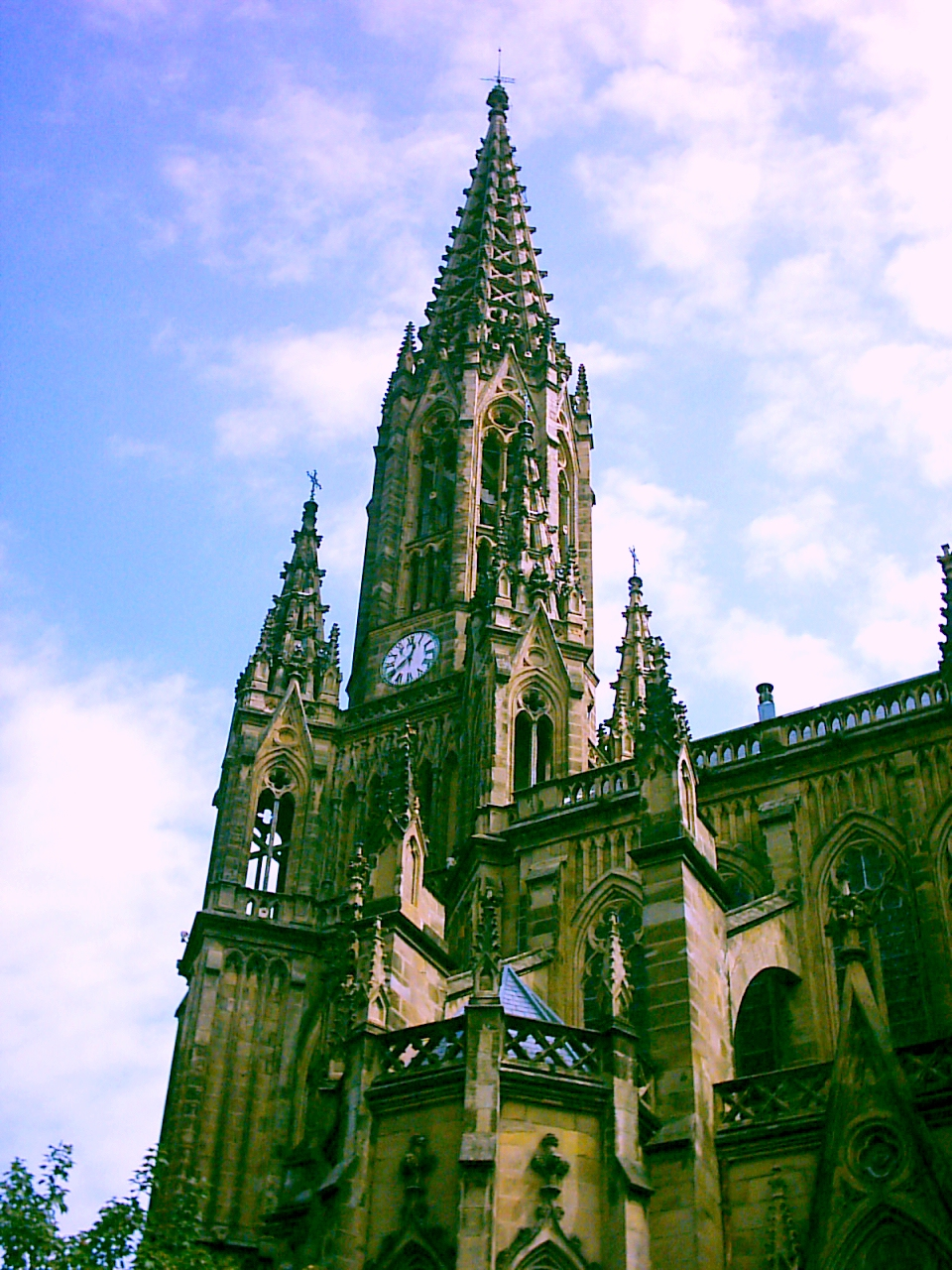 The Cathedral of Donostia-San Sebastian (Spain) from the left side.